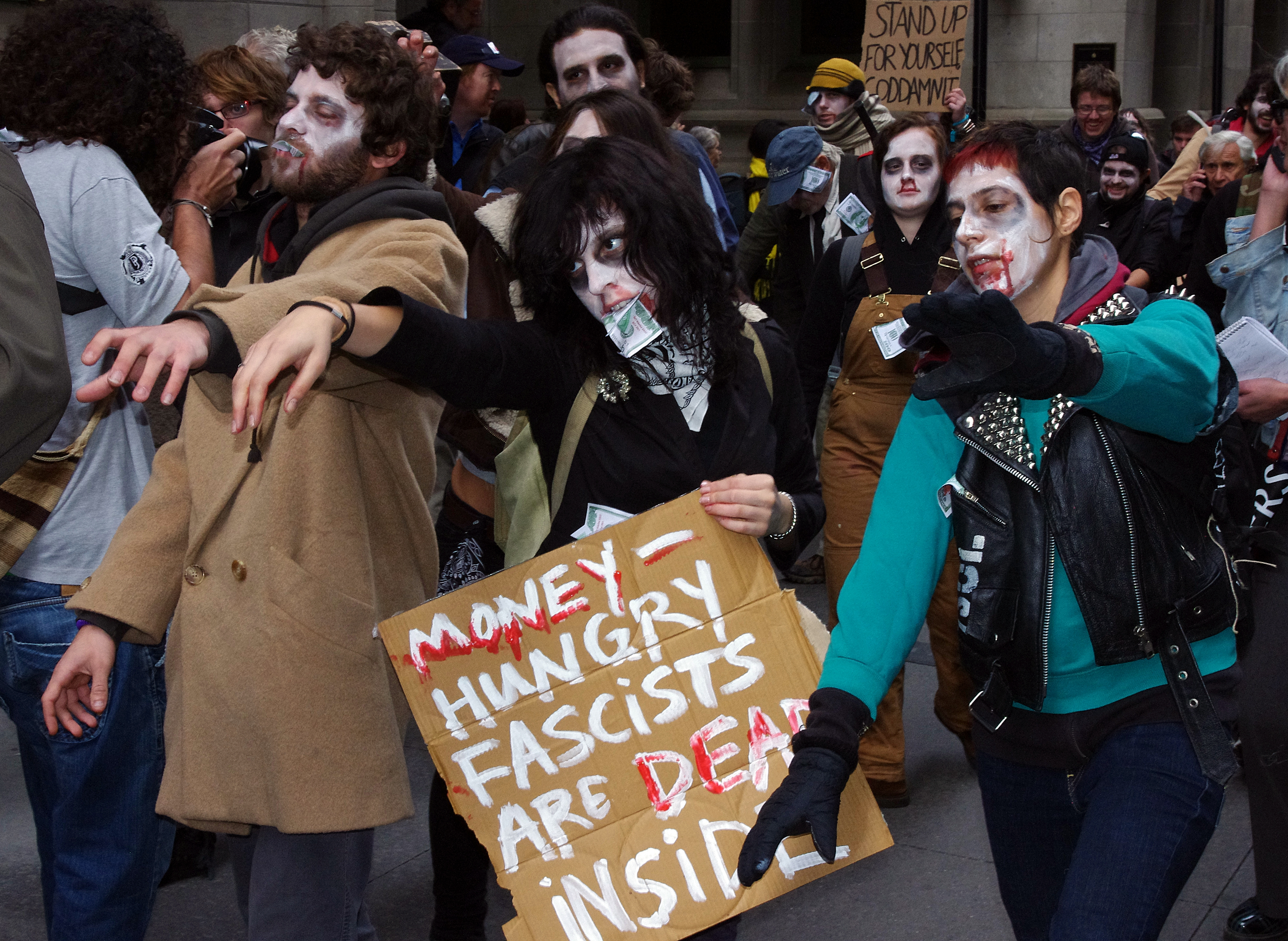 October 3, Day 17 of Occupy Wall Street: photos of the zombie march and life around Liberty Park.